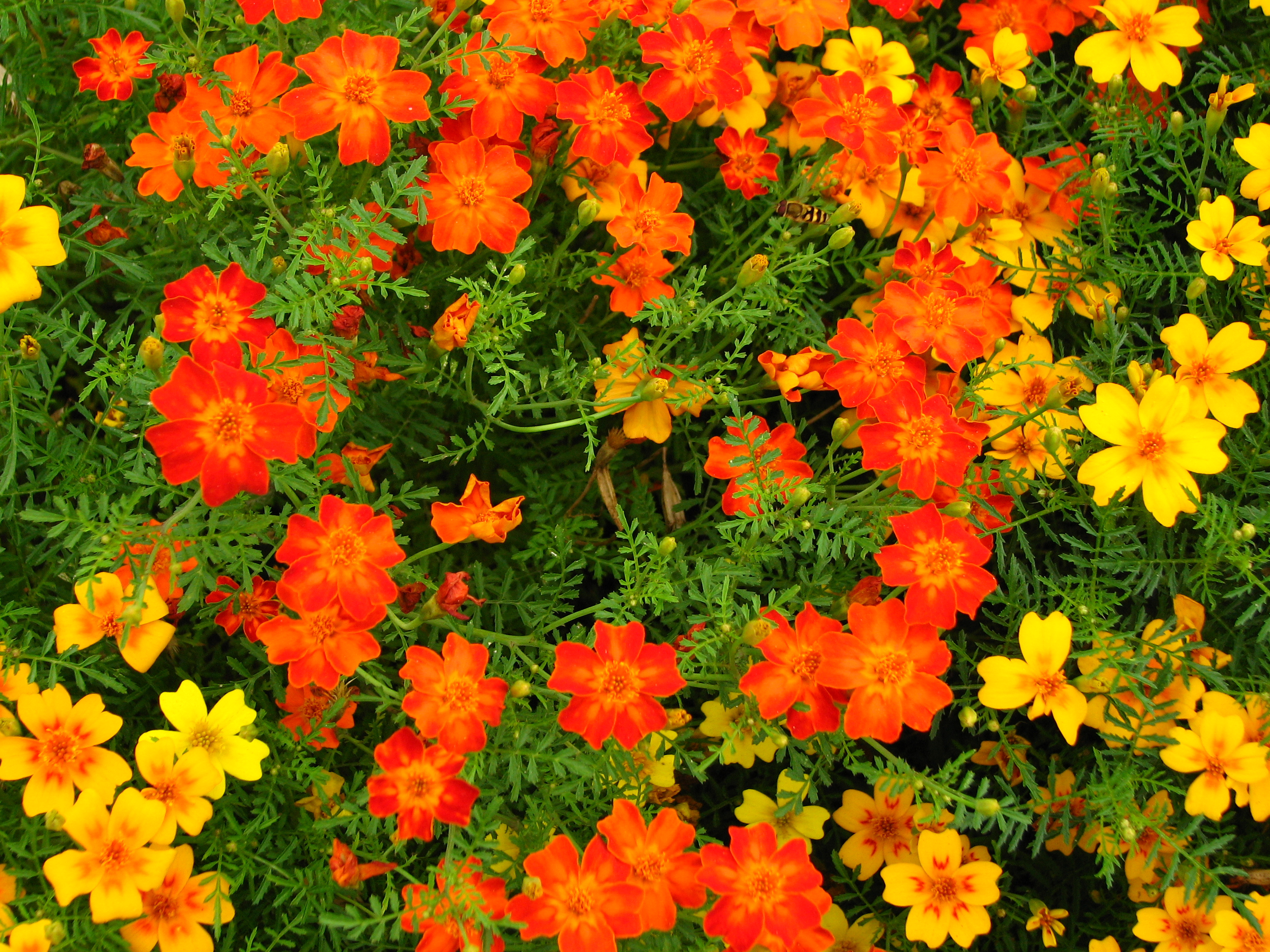 Flower beds in park Kolomenskoye (Moscow).